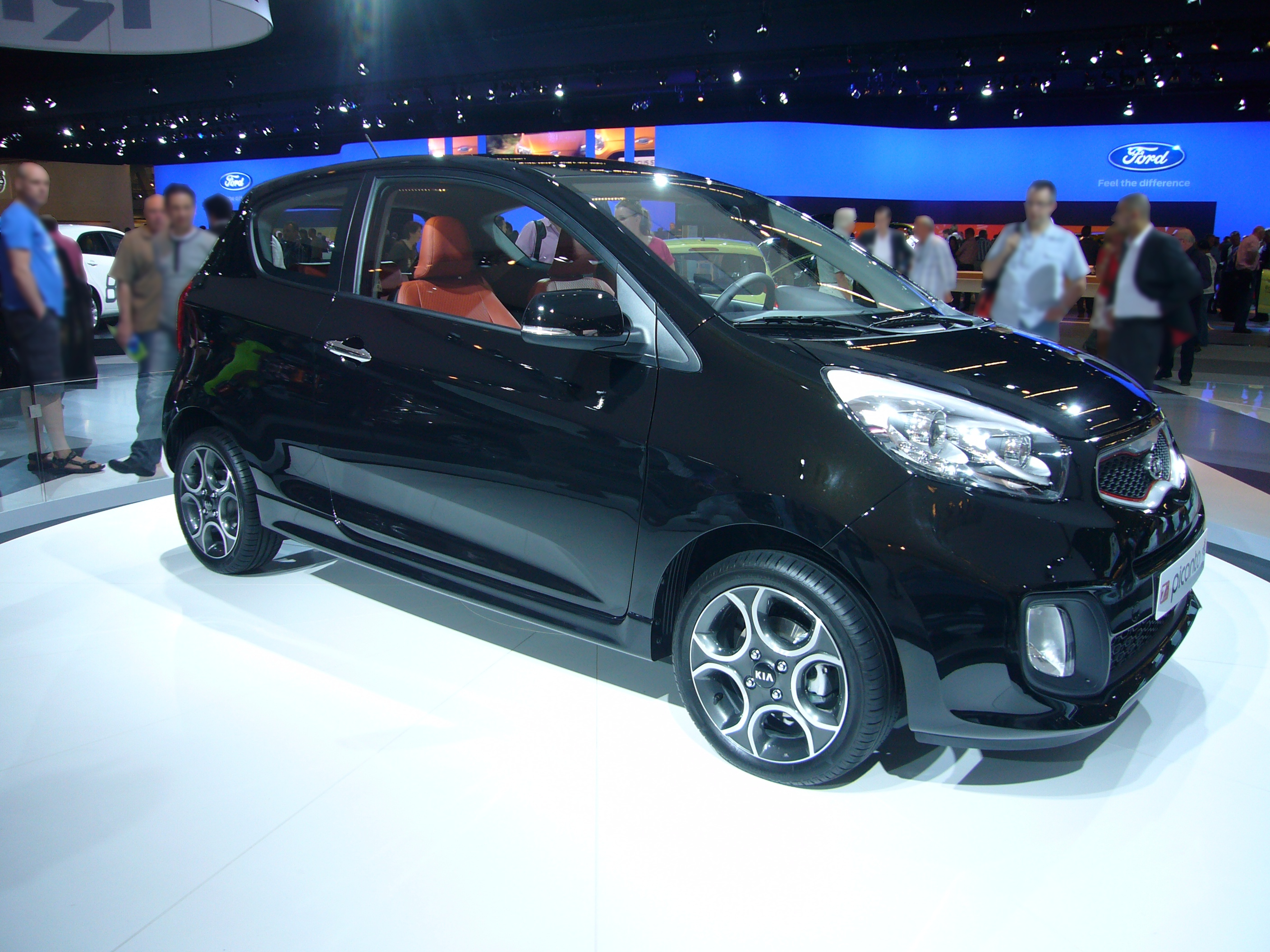 Kia Picanto (TA) 3 door at AutoRAI Amsterdam 2011